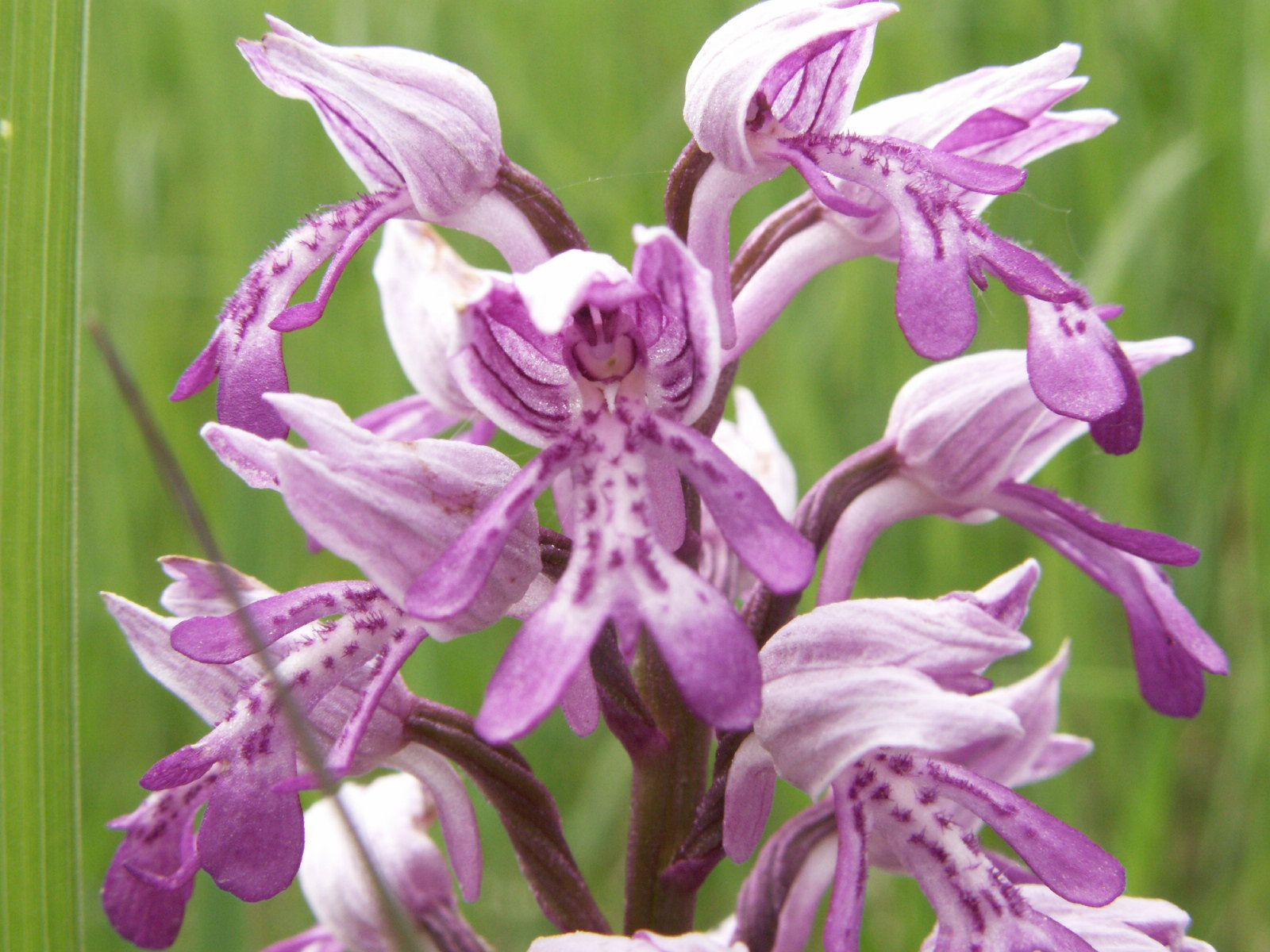 orchis militaris